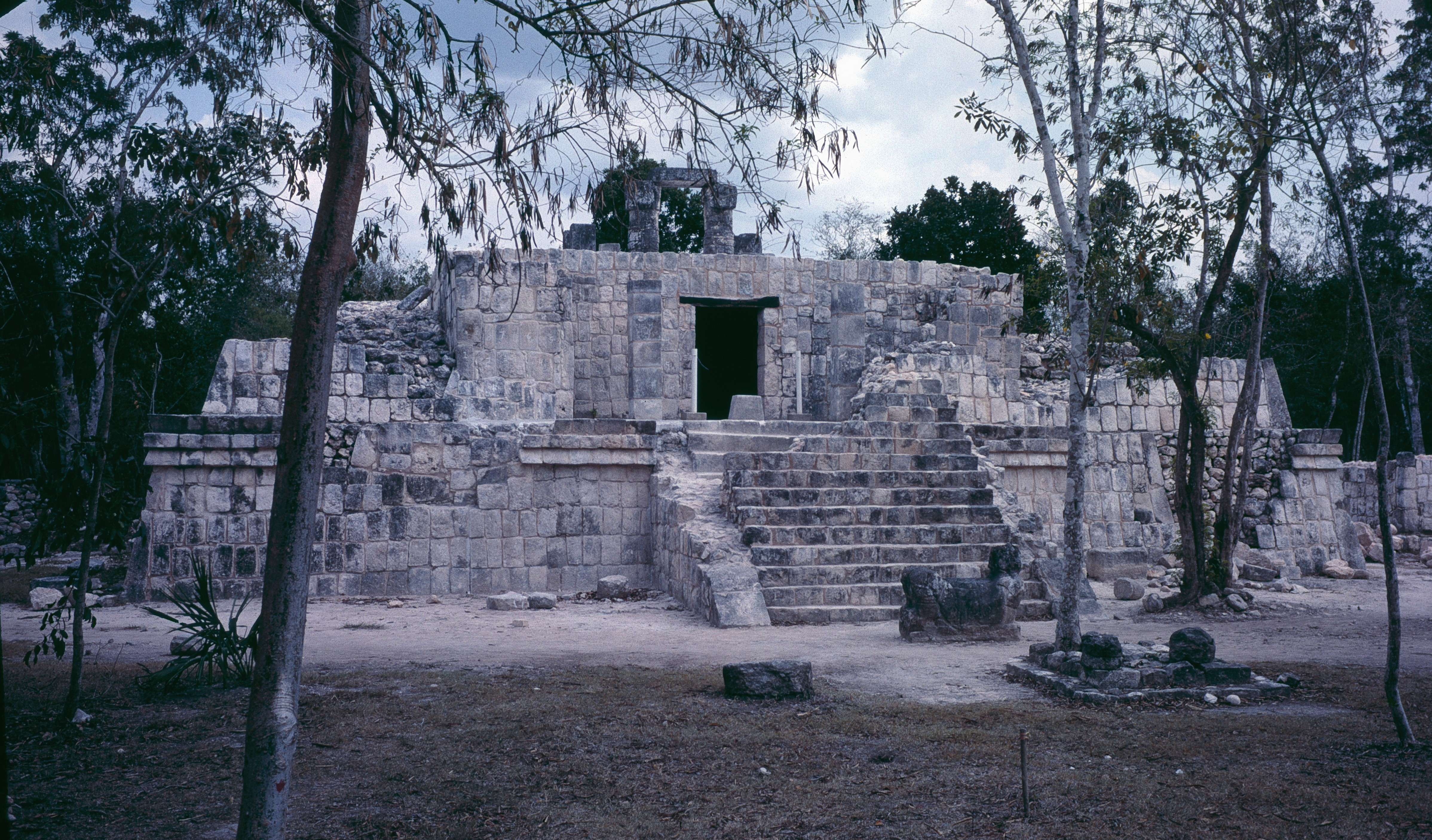 Chichen Itza, Yucatan, Mexico: Group of the Intitial Series: Tempel